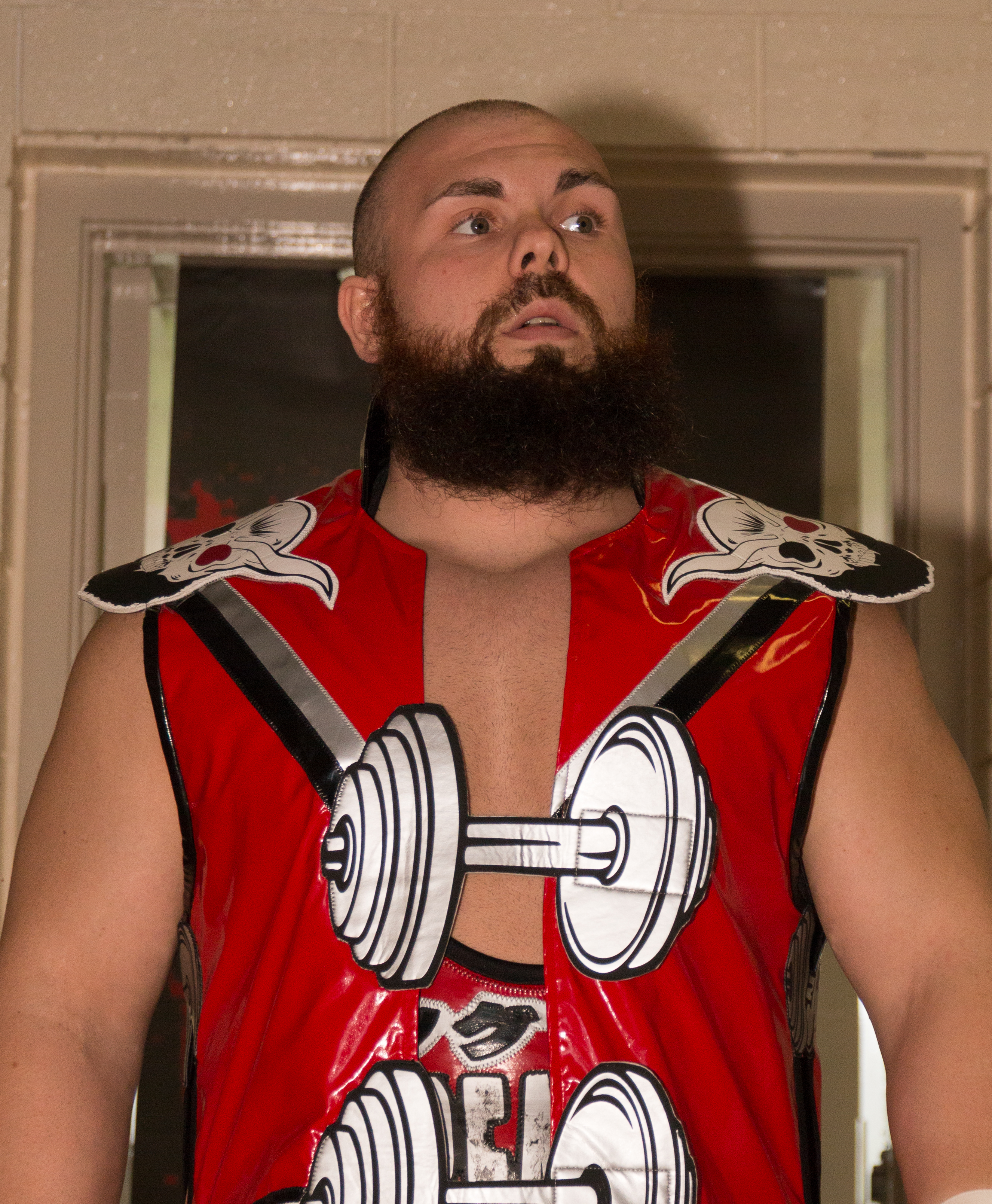 Michael Elgin making his entrance at an Alpha-1 wrestling show in Hamilton, ON